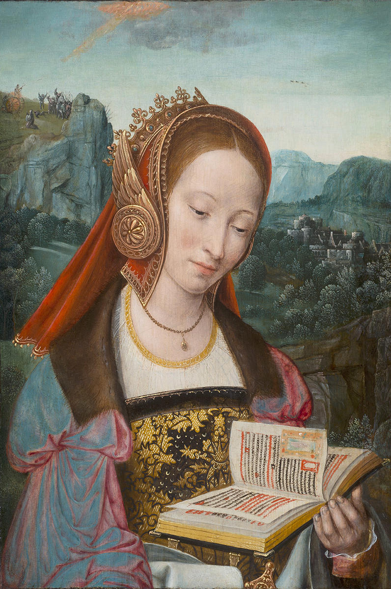 Saint Catherine by the Master of Frankfurt, oil on panel, 12 3/4 x 8 9/16in (32.4 x 21.7cm), McNay Art Museum